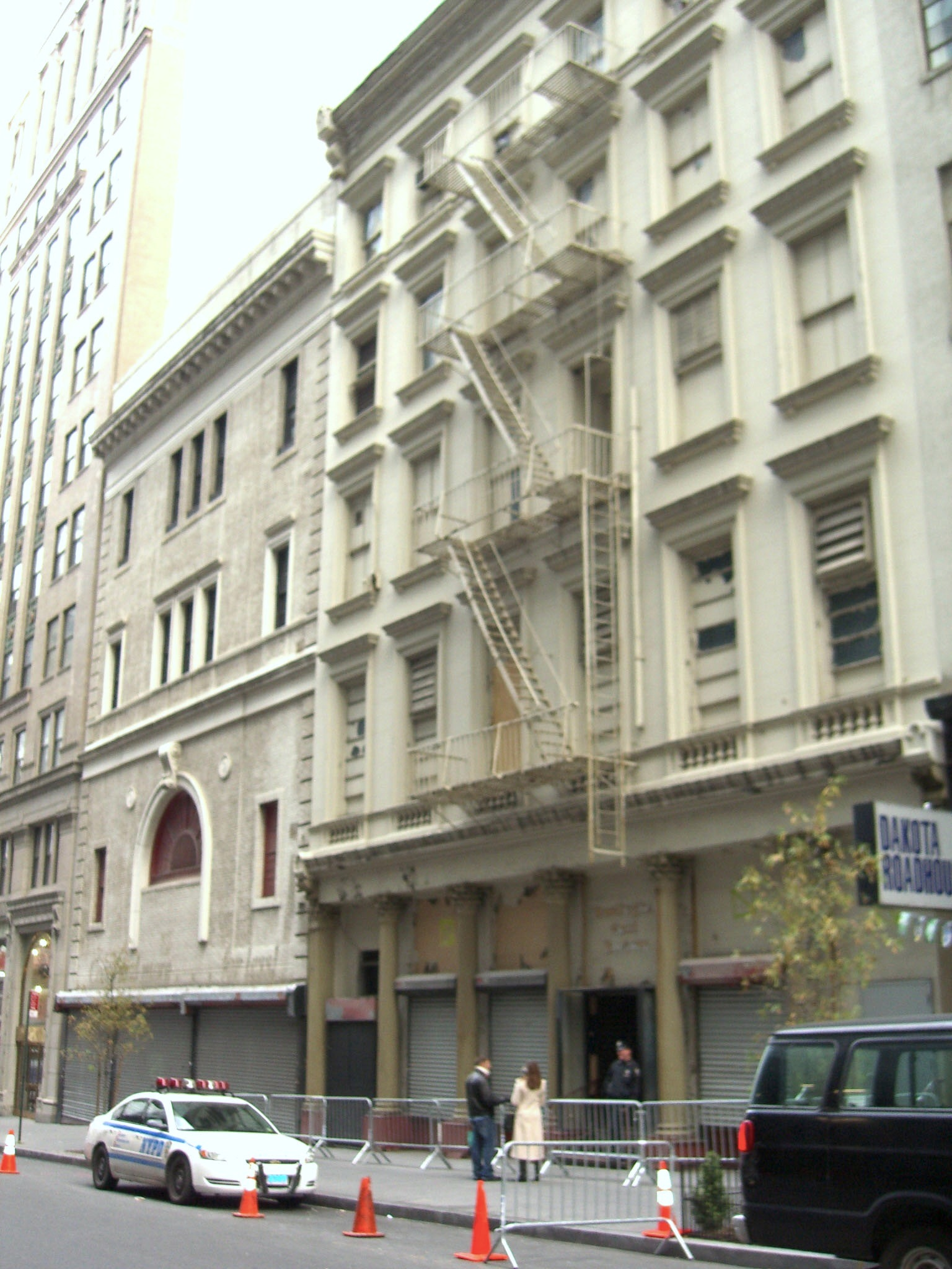 Buildings at 45-51 Park Place in Manhattan, the former site of a Burlington Coat Factory, and the intended site for Park51, a Muslim community center. Photographed by Luigi Novi. This photo is not in the public domain. It may, however, be used, modified and published for any purpose, only if an easily visible credit to the photographer is placed near the photo in each instance in which it is used. (See licensing information below.) Publication of this photo without this proper attribution constitutes copyright infringement. For more information on my photos, you can contact me here.